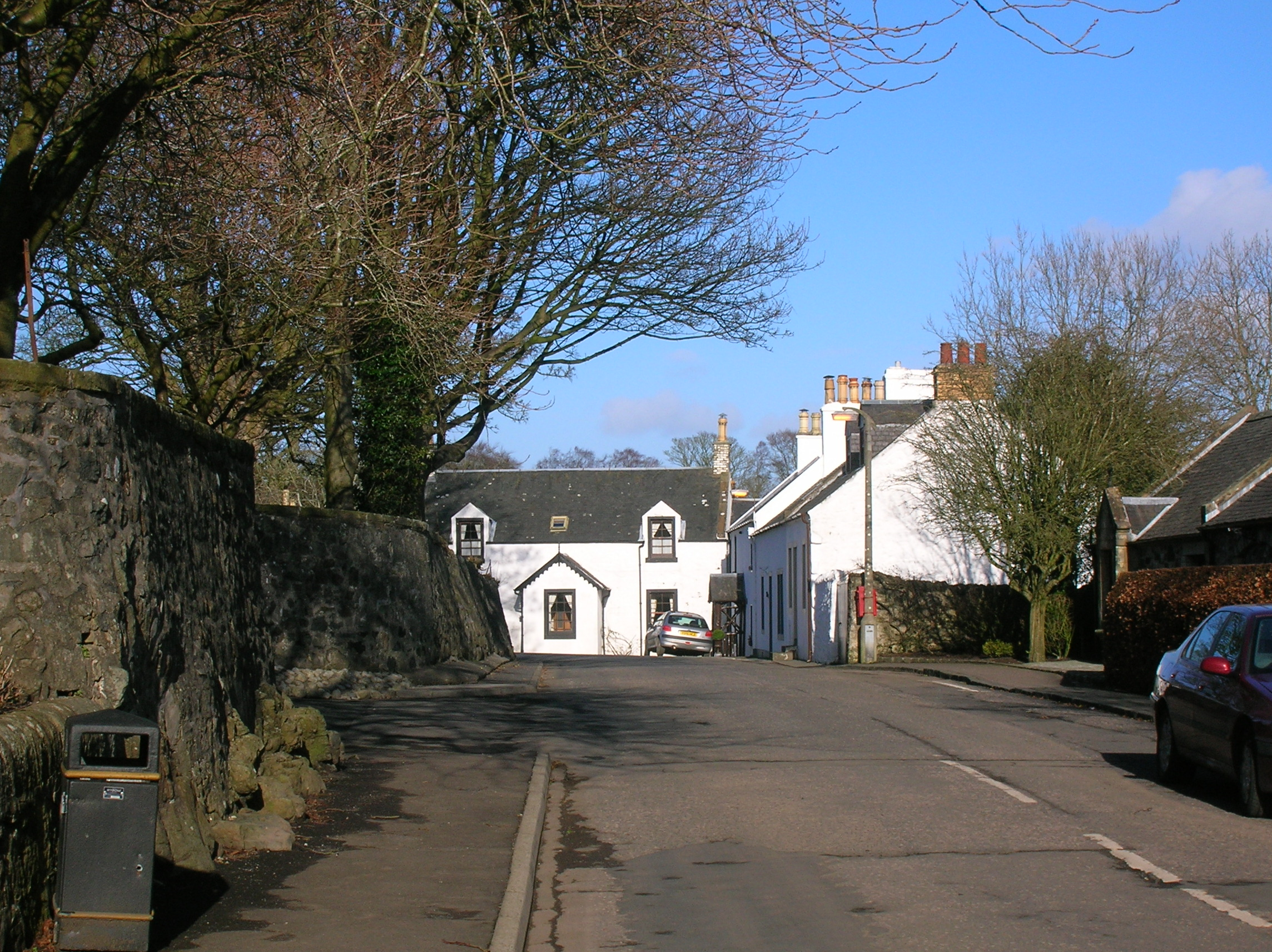 Brewlands Street, Symington, South Ayrshire, Scotland. The Crown Inn was located in a building to the right. The church is to the left.